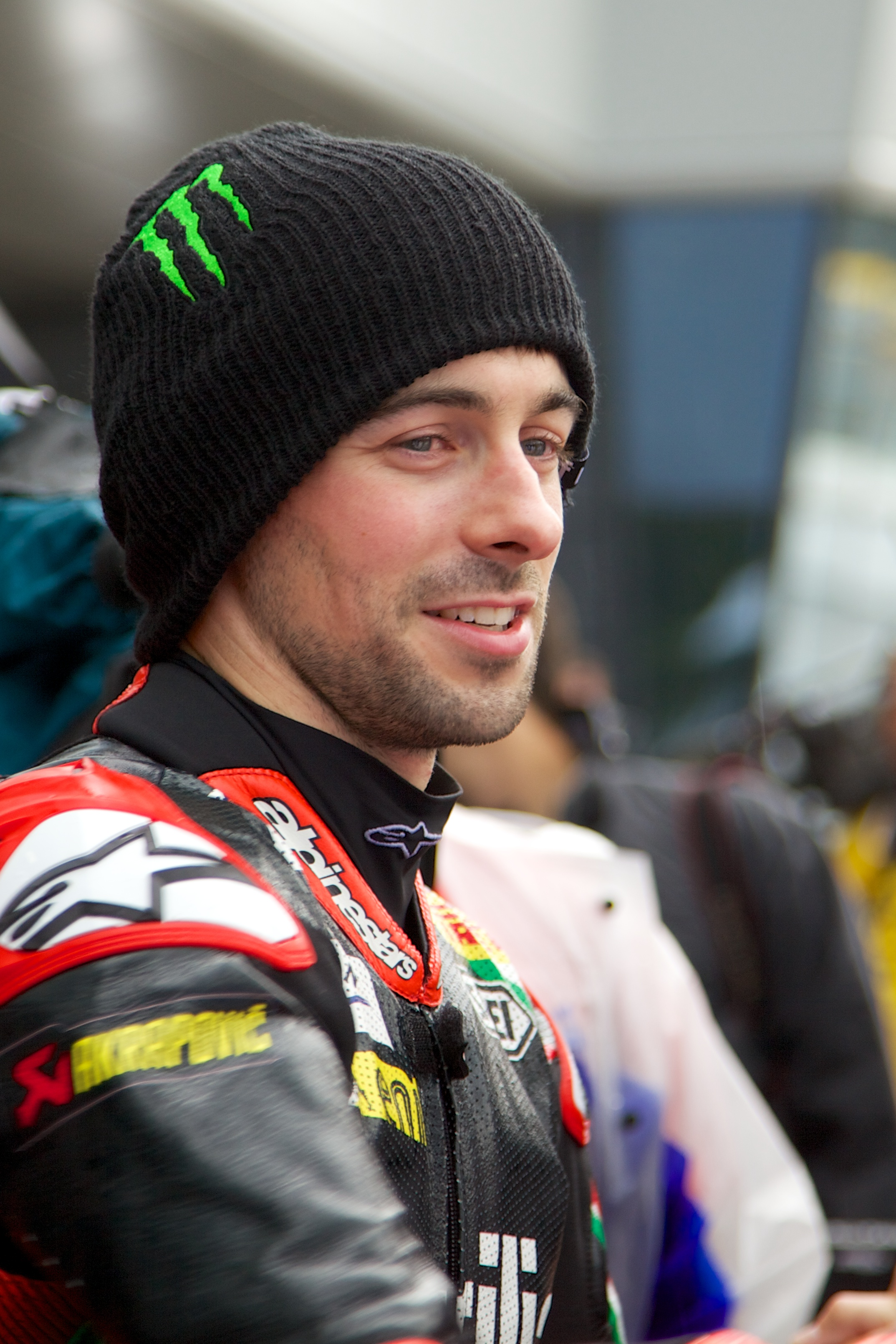 Eugene Laverty, Aprilia World Superbike rider, in Parc Fermé, Silverstone 2012.